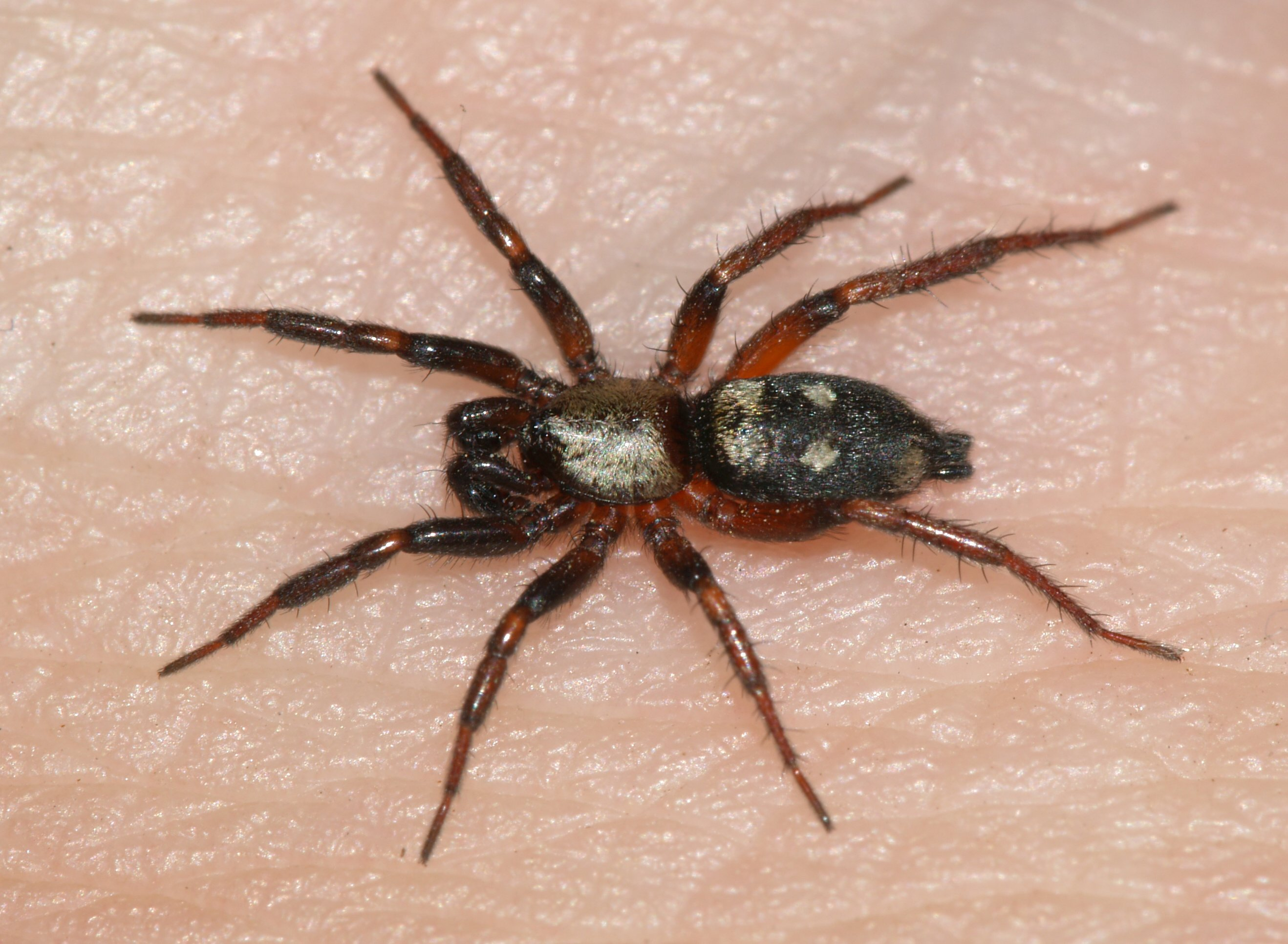 male Callilepis schuszteri from Ratingen, Germany.